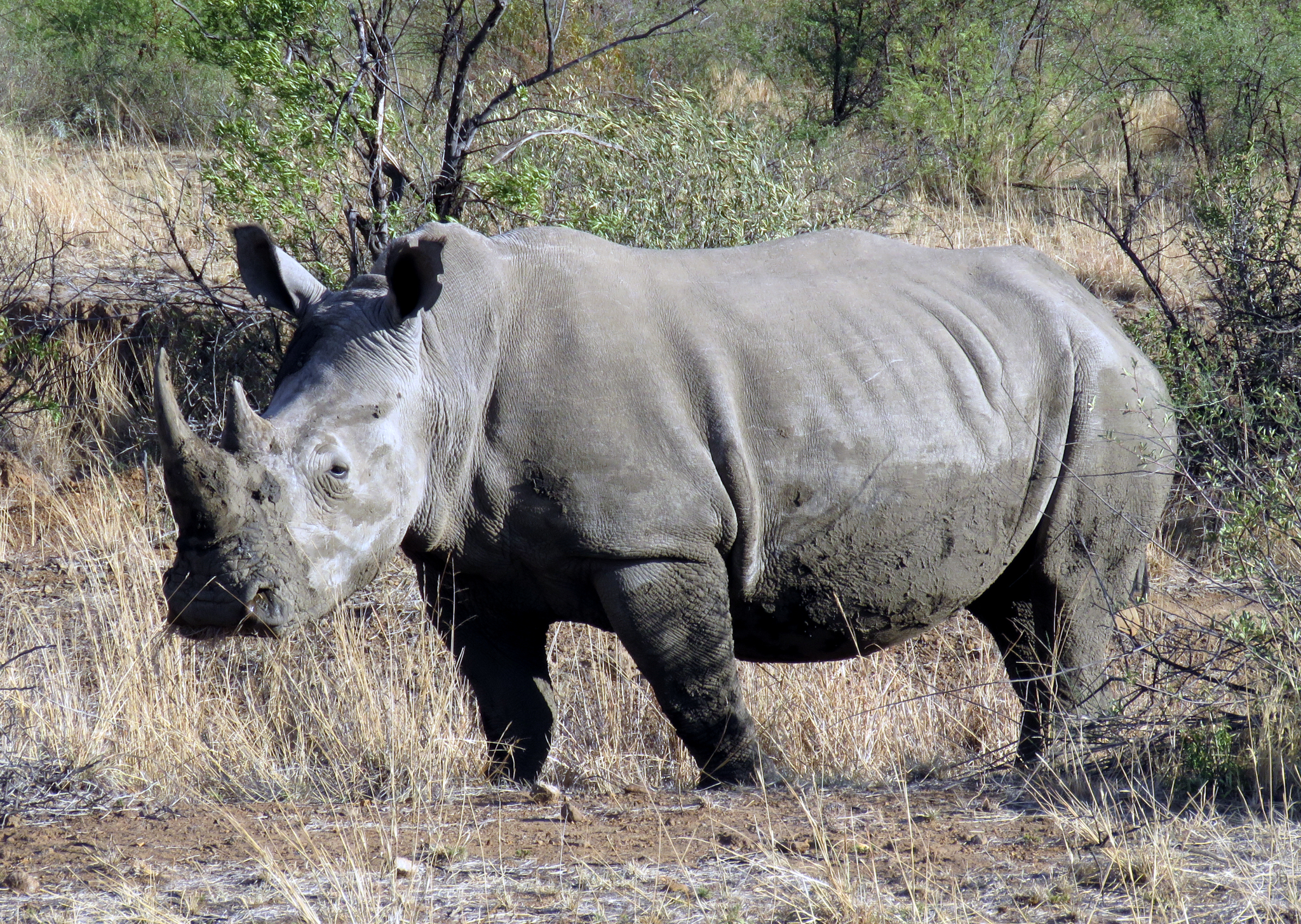 Southern White Rhino, Pilanesberg national park.